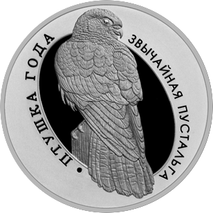 Environmental protection. Commemorative coins "Zvychaynaya pustalga" (Common Kestrel)